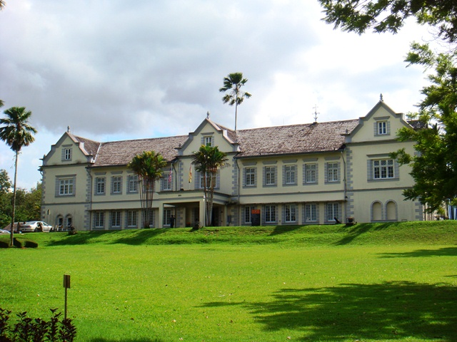 The Sarawak State Museum, Kuching in December 2011